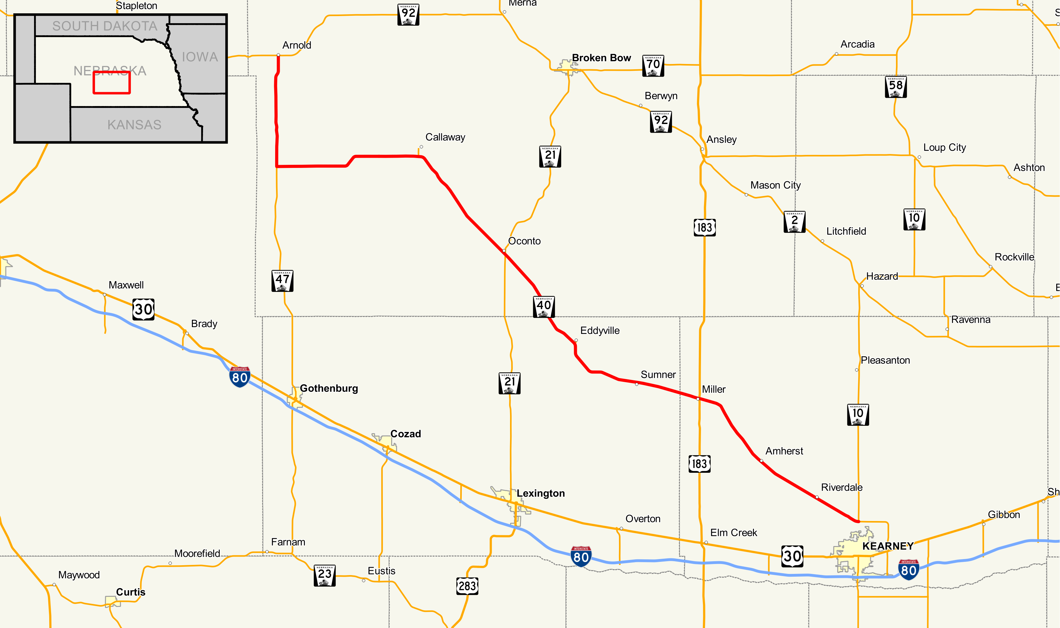 Map of Nebraska Highway 40 Data Sources: Nebraska Highways - - Dec 2016 Nebraska County Boundaries - - Dec 2016 Nebraska City Boundaries - - Dec 2016 This PNG graphic was created with QGIS